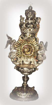 Ostensoir of Ham-sur-Heure Church, gift of the Mérode family, Lords of Ham-sur-Heure. It includes the Golden Fleece jewel from the Order of the Golden Fleece awarded to Jean Charles Joseph, Count of Mérode, Marquis of Deynze, Lord of Ham-sur-Heure by Holy Emperor Joseph II.